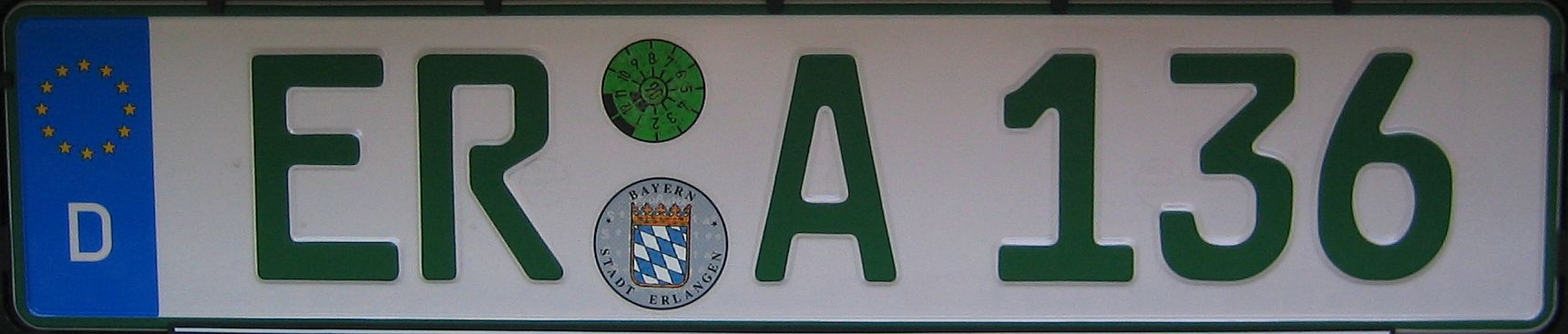 German number plate for tax-exempt vehicles, registration office: Erlangen Picture taken by myself on 2005-09-25